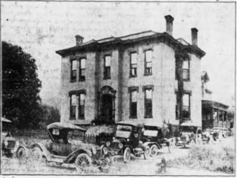 Millie E. Hale Hospital, located on 523 7th Ave, South in Nashville, Tennessee in 1917.